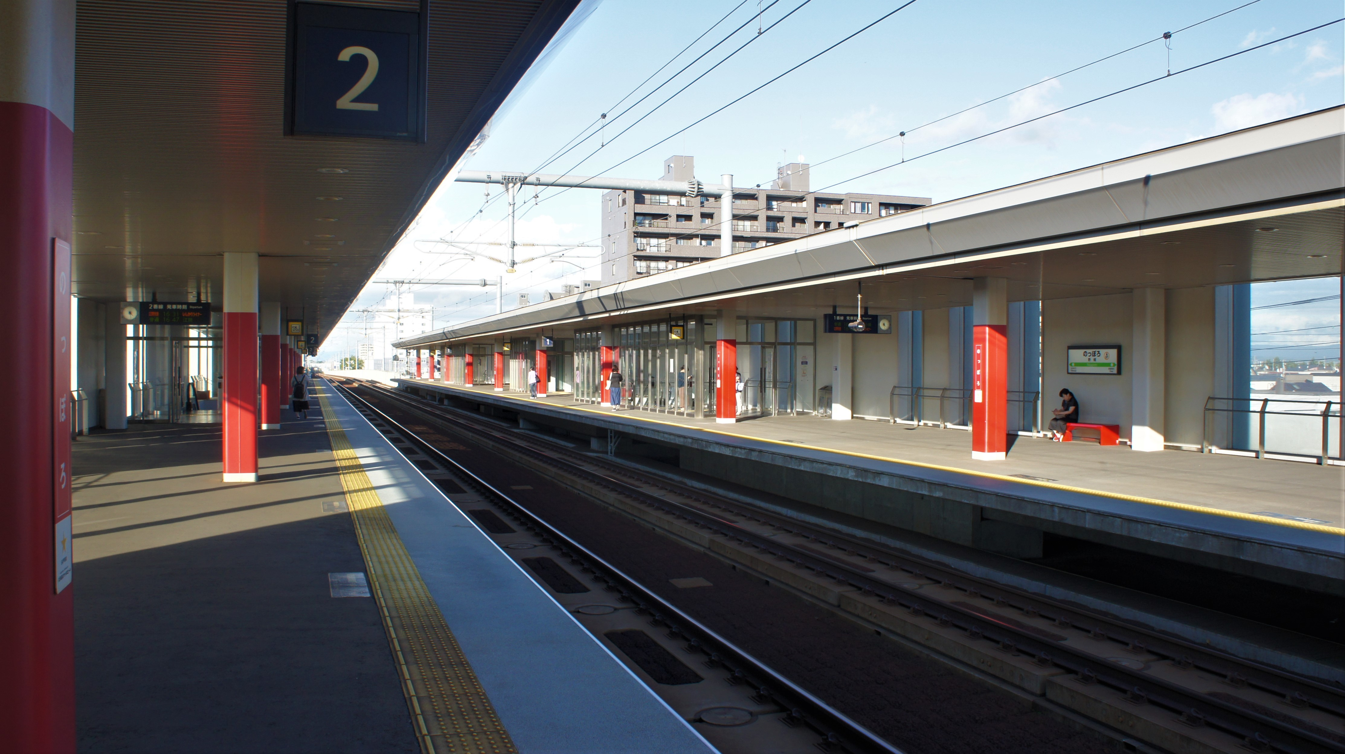 Platform of JR Hakodate-Main-Line Nopporo Station